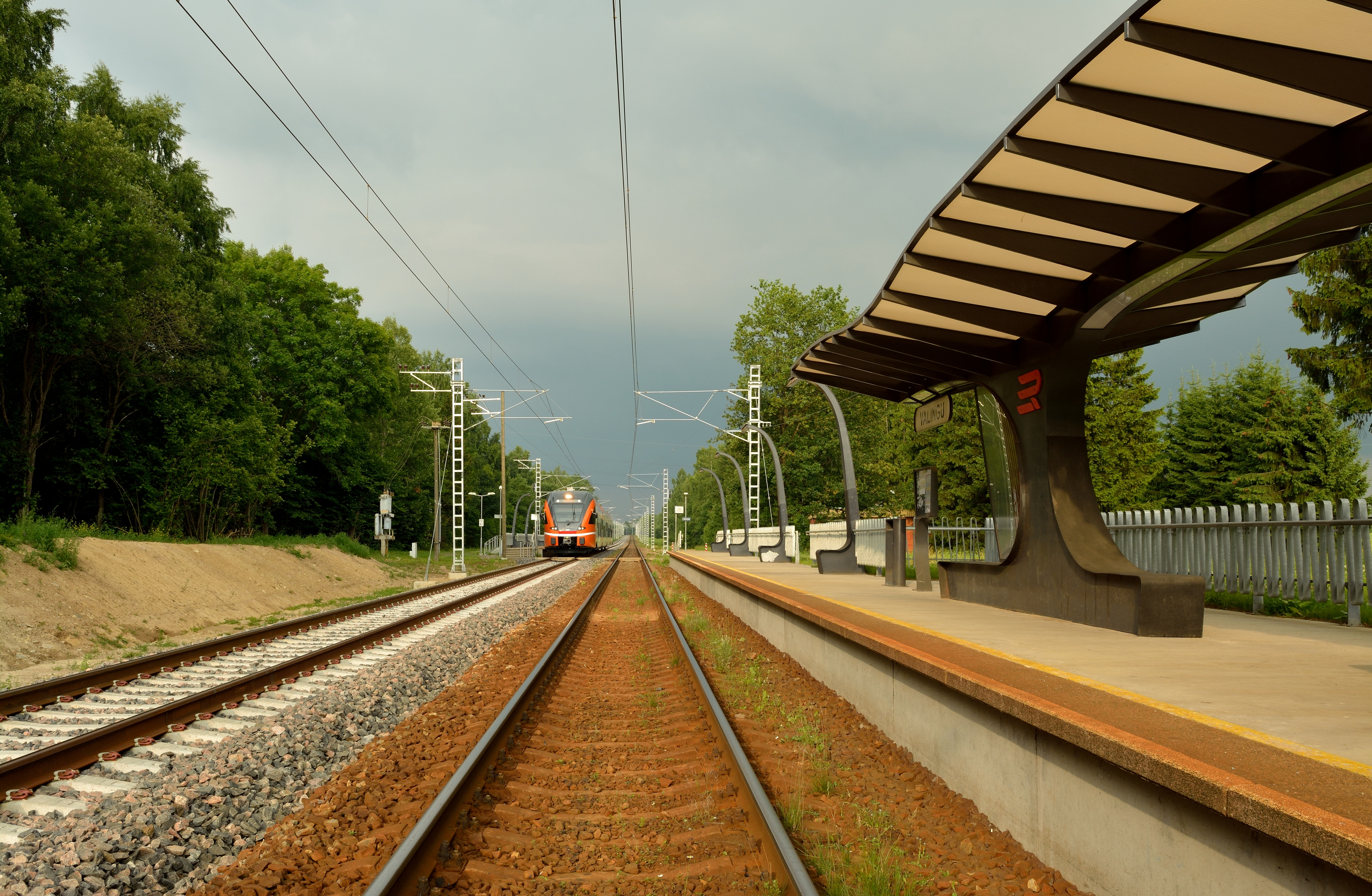 Valingu train stop